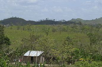 El Coral, Chontales